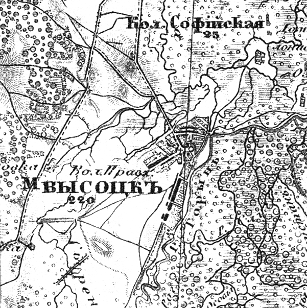 Vysotsk on the map "Военно-топографическая карта Российской Империи" (known as "Schubert's map"), XX 5, 1866-1887 (issued in 1911).